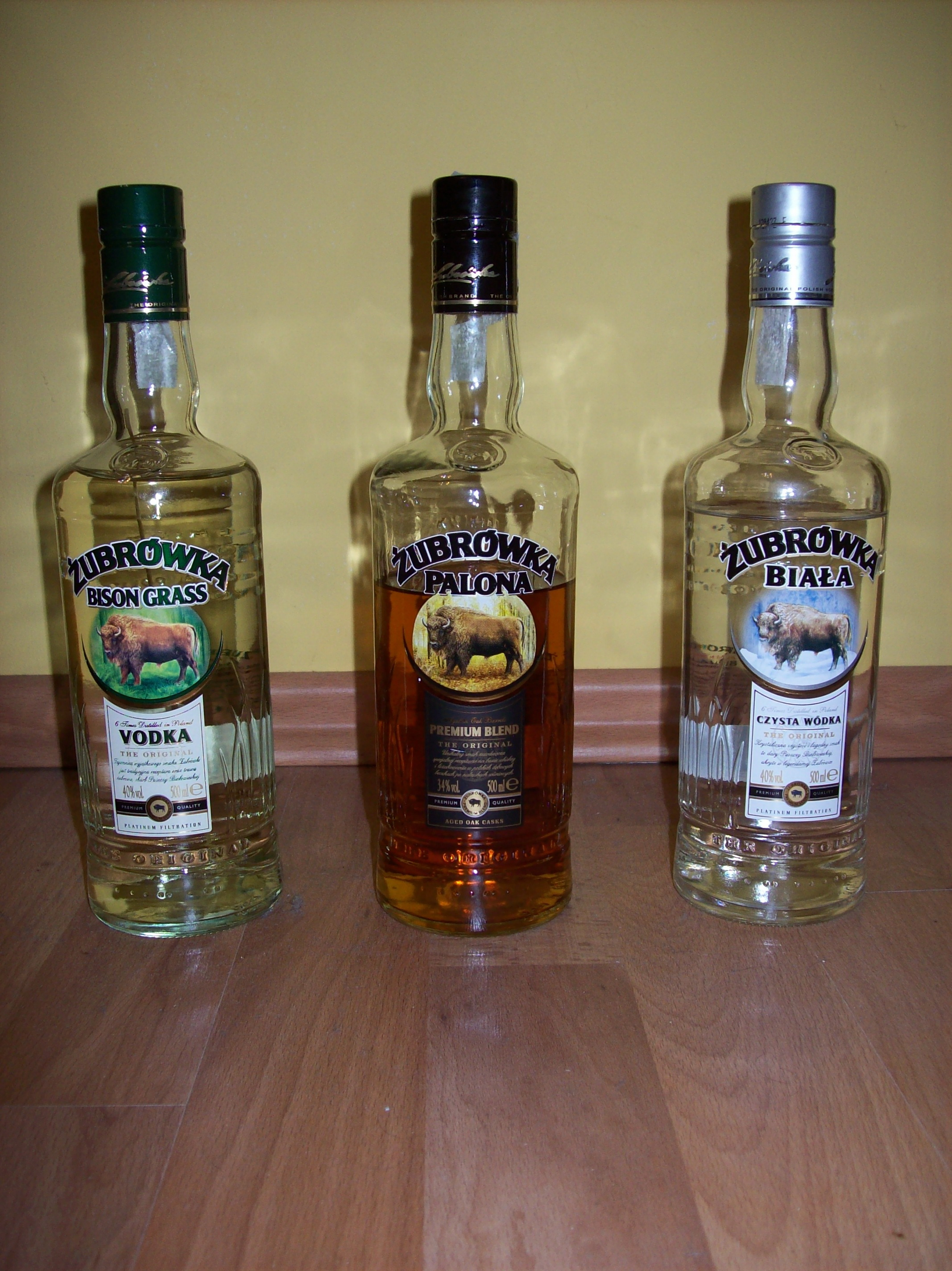 Żubrówka Bottles